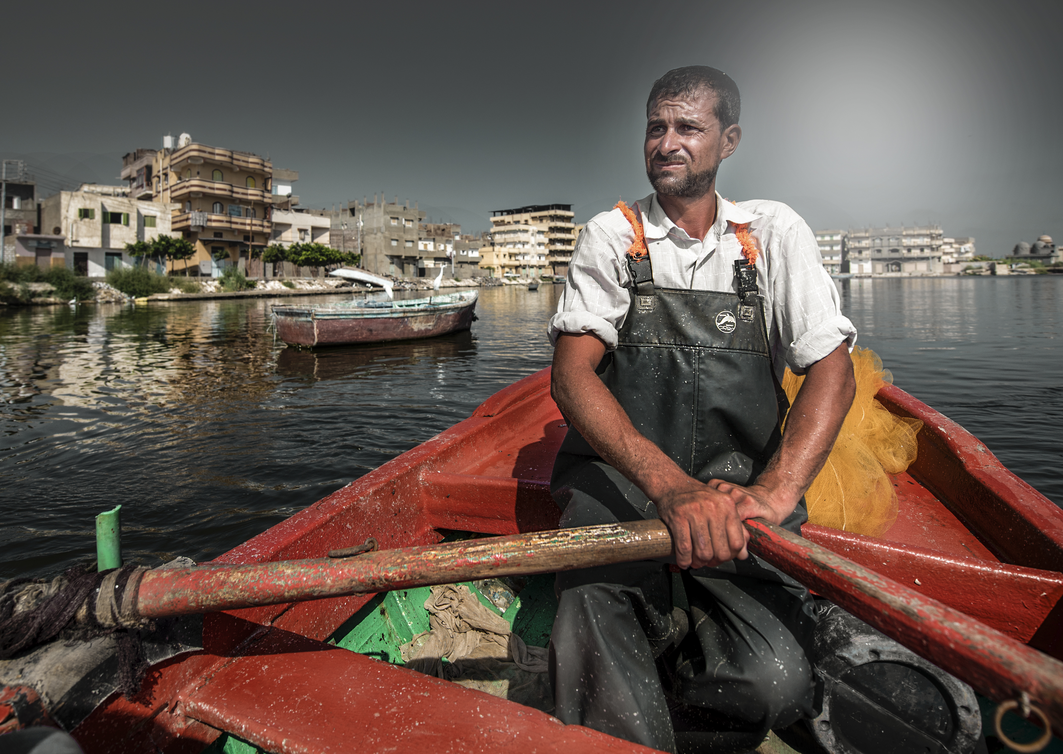 This is an image with the theme "Africa on the Move or Transport" from: Egypt